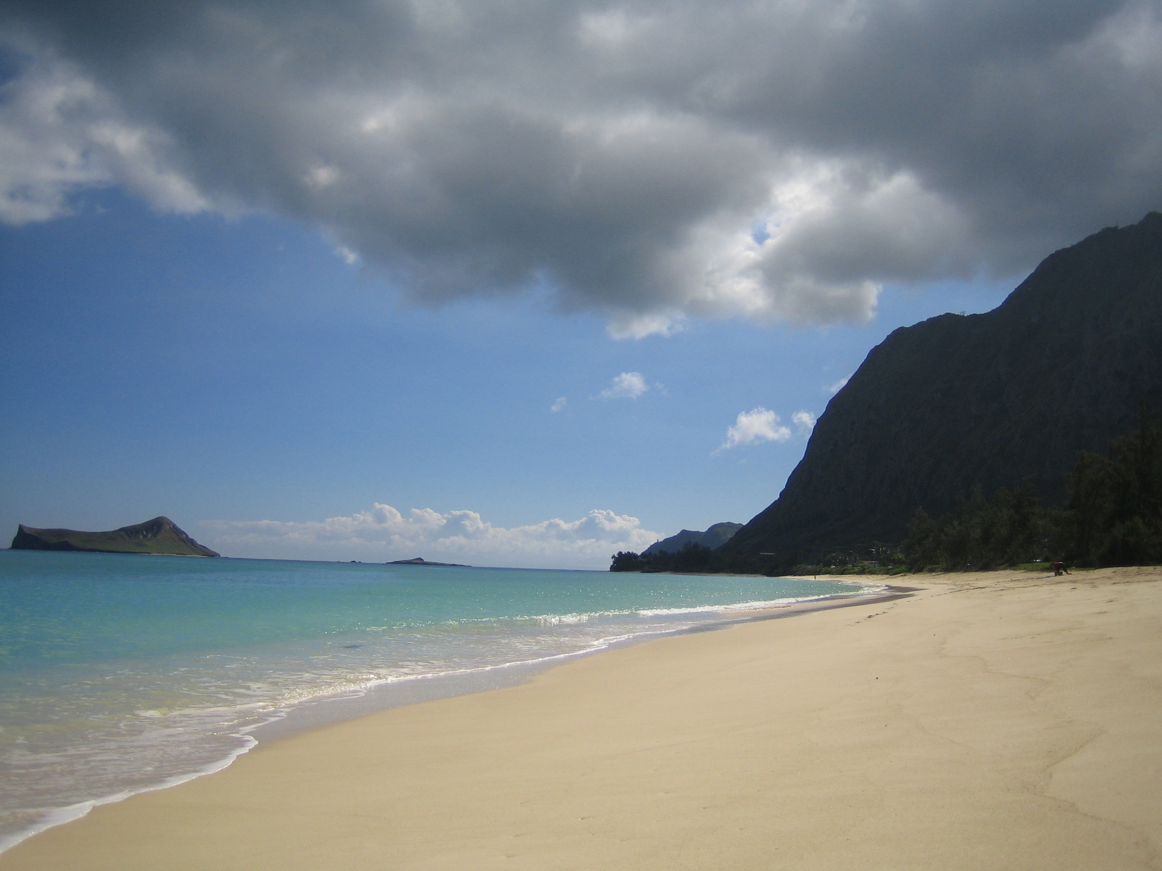 Waimanalo Beach, located on the windward side of O'ahu, Hawai'i.